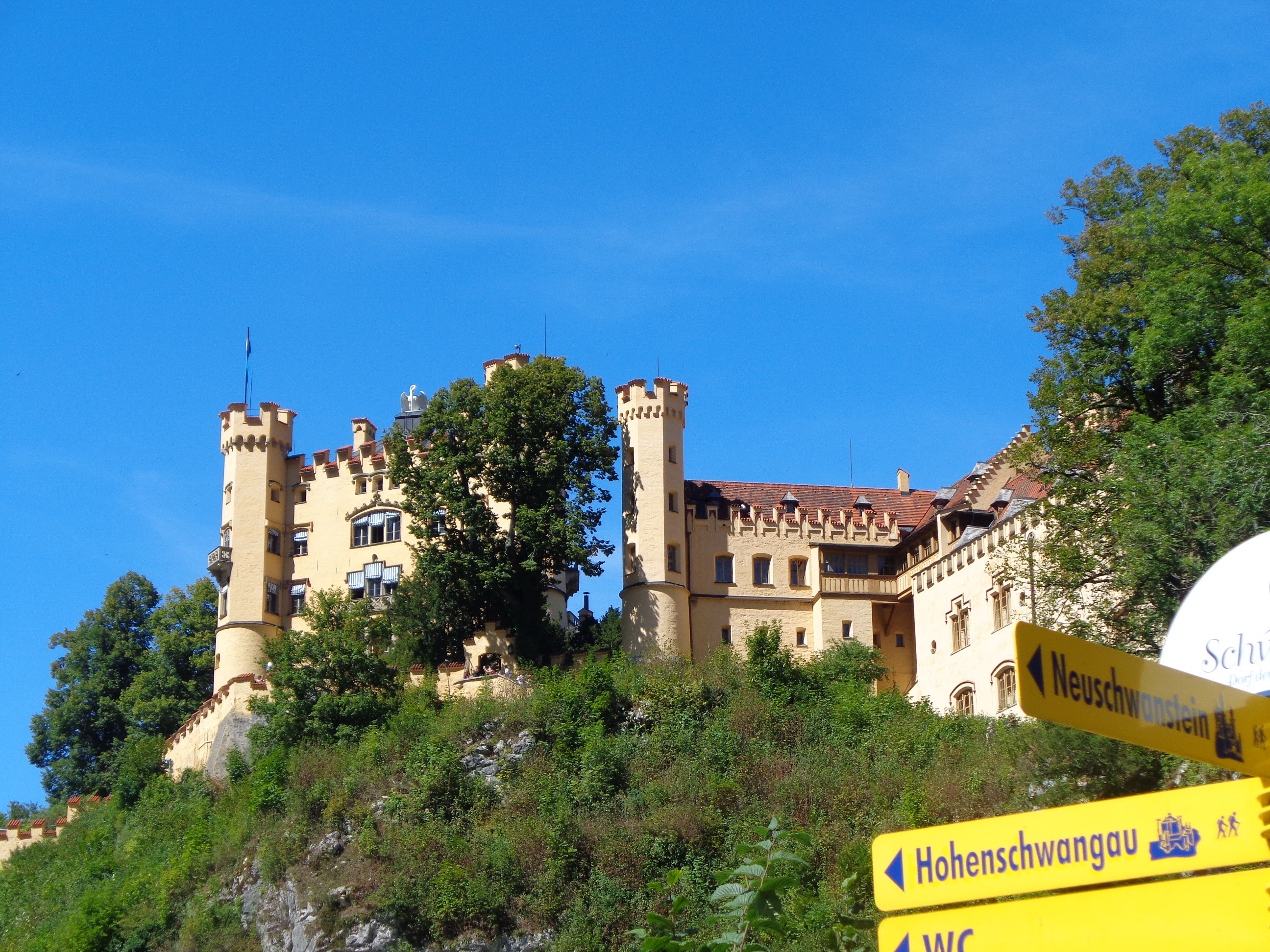 Hohenschwangau Castle, Bavaria (Germany) - southeast view